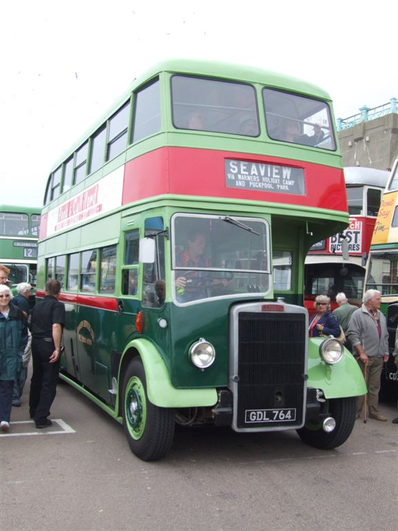 Presumably these are the same buses that Maidstone Corporation had. But with different bodies.